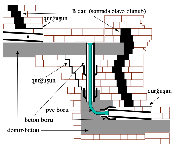 Borobudur drainage restoration